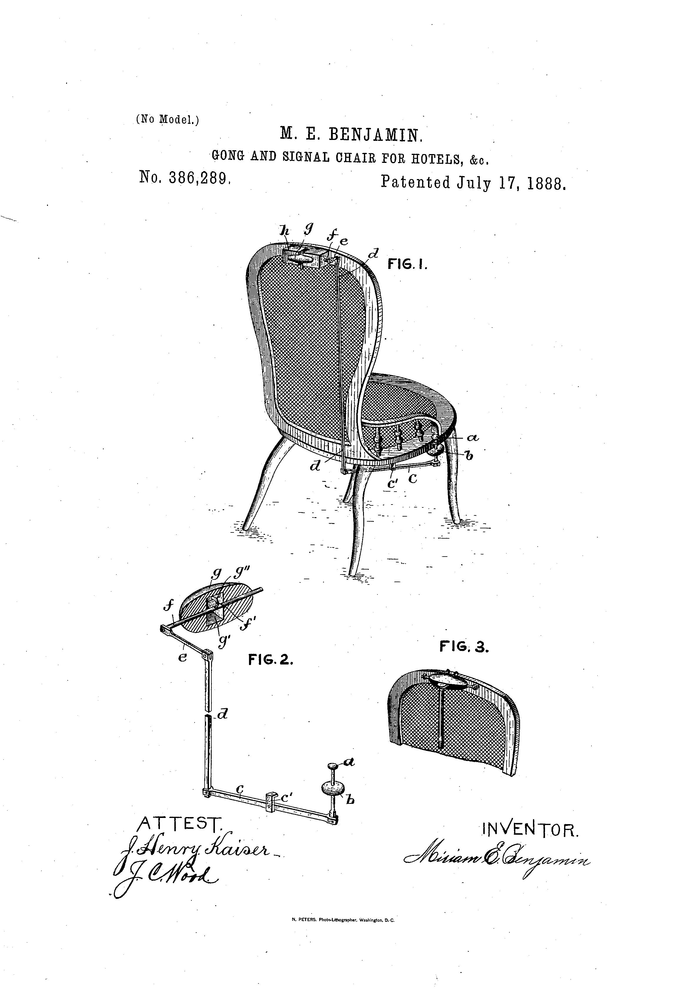 The patent for the Gong and Signal Chair invented by Miriam Benjamin.